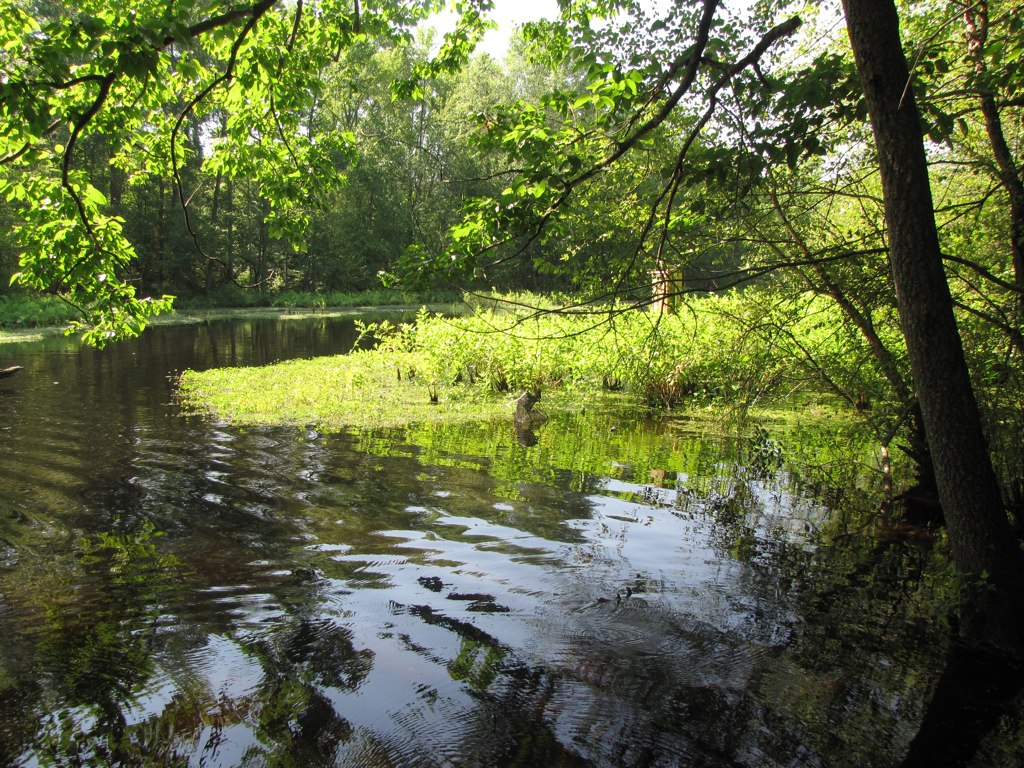 Survey (June 27 - 28, 2012) Wetlands in Mattaponi Wildlife Management Area where carpenter frogs (Lithobates virgatipes) were found. Other species occurring at this site include: Northern green frog (Lithobates clamitans melanota), bullfrog (Lithobates catesbeianus) and Northern cricket frog (Acris crepitans). (Photo: Kelly Geer/USFWS)